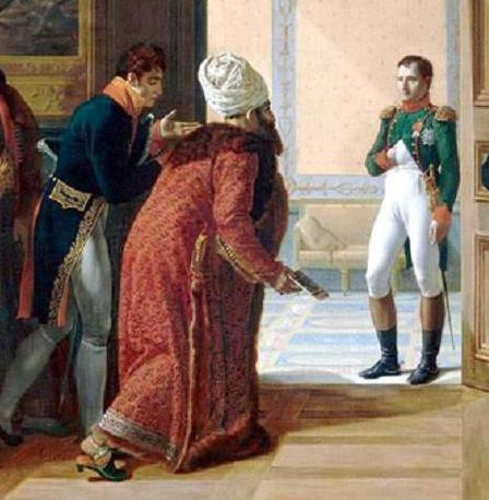 The_Persian_Envoy_Mirza_Mohammed_Reza_Qazvini_Finkenstein_Castle_27_Avril_1807_by_Francois_Mulard_detail.